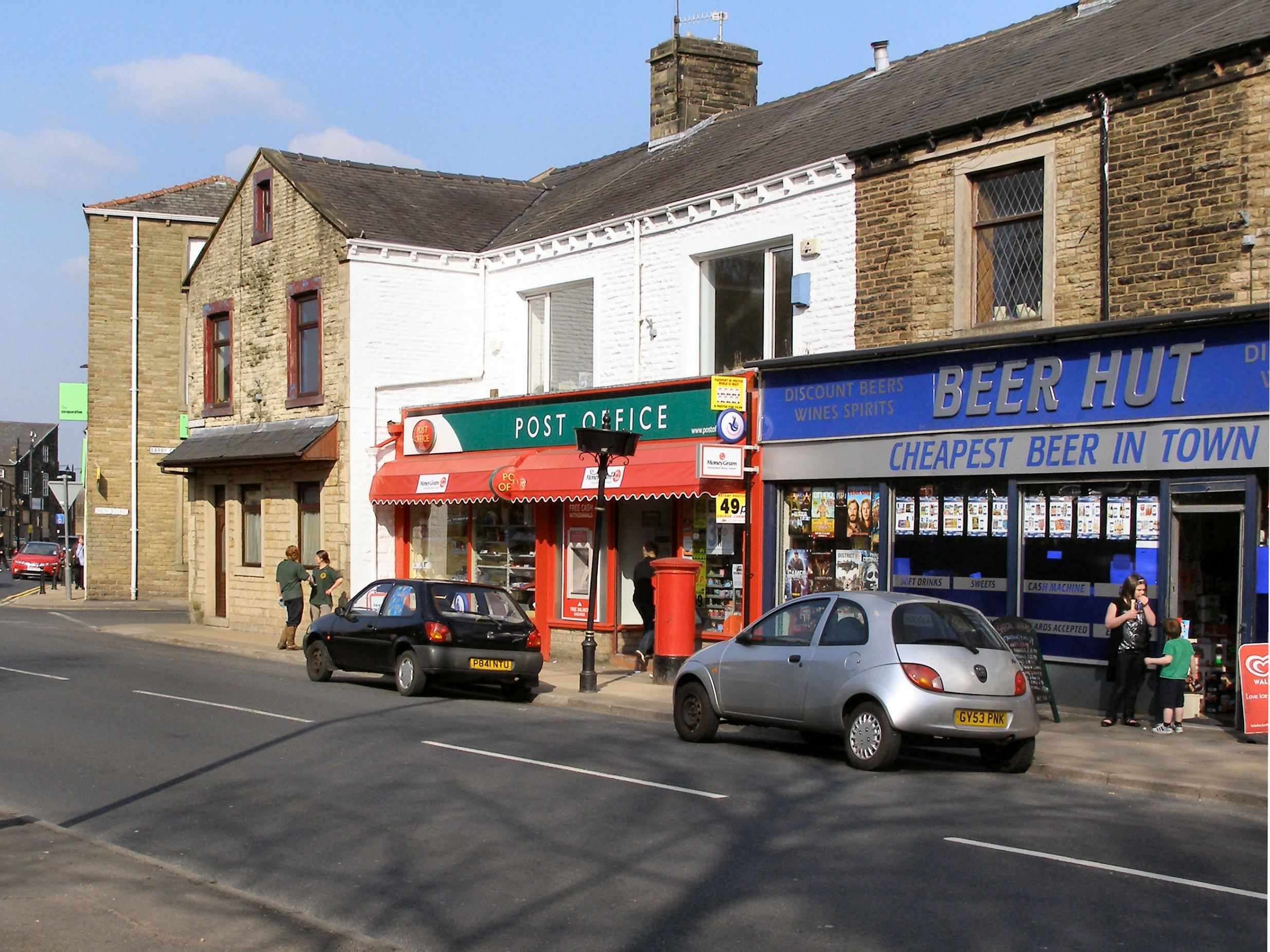 Earby Post Office, near to Earby, Lancashire, Great Britain. Skipton Road.